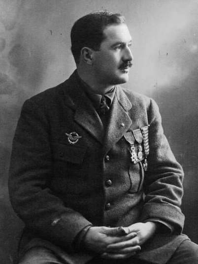 French aviator Paul Tarascon (1882-1977).